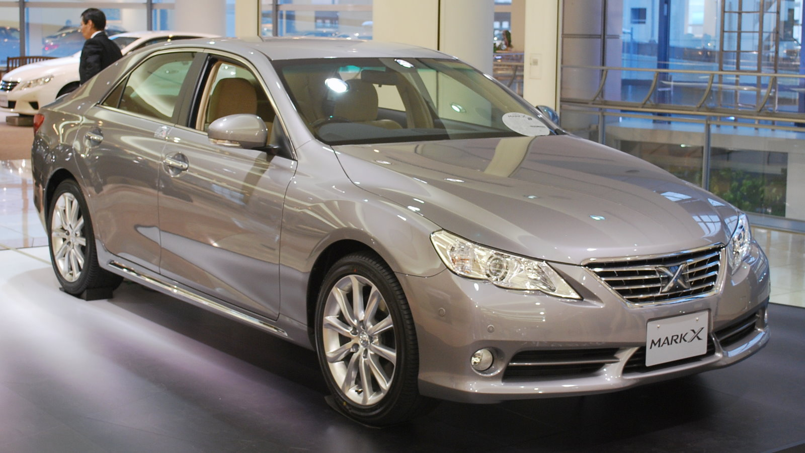 2nd Generation Toyota Mark X Premium type (2009/10 -)